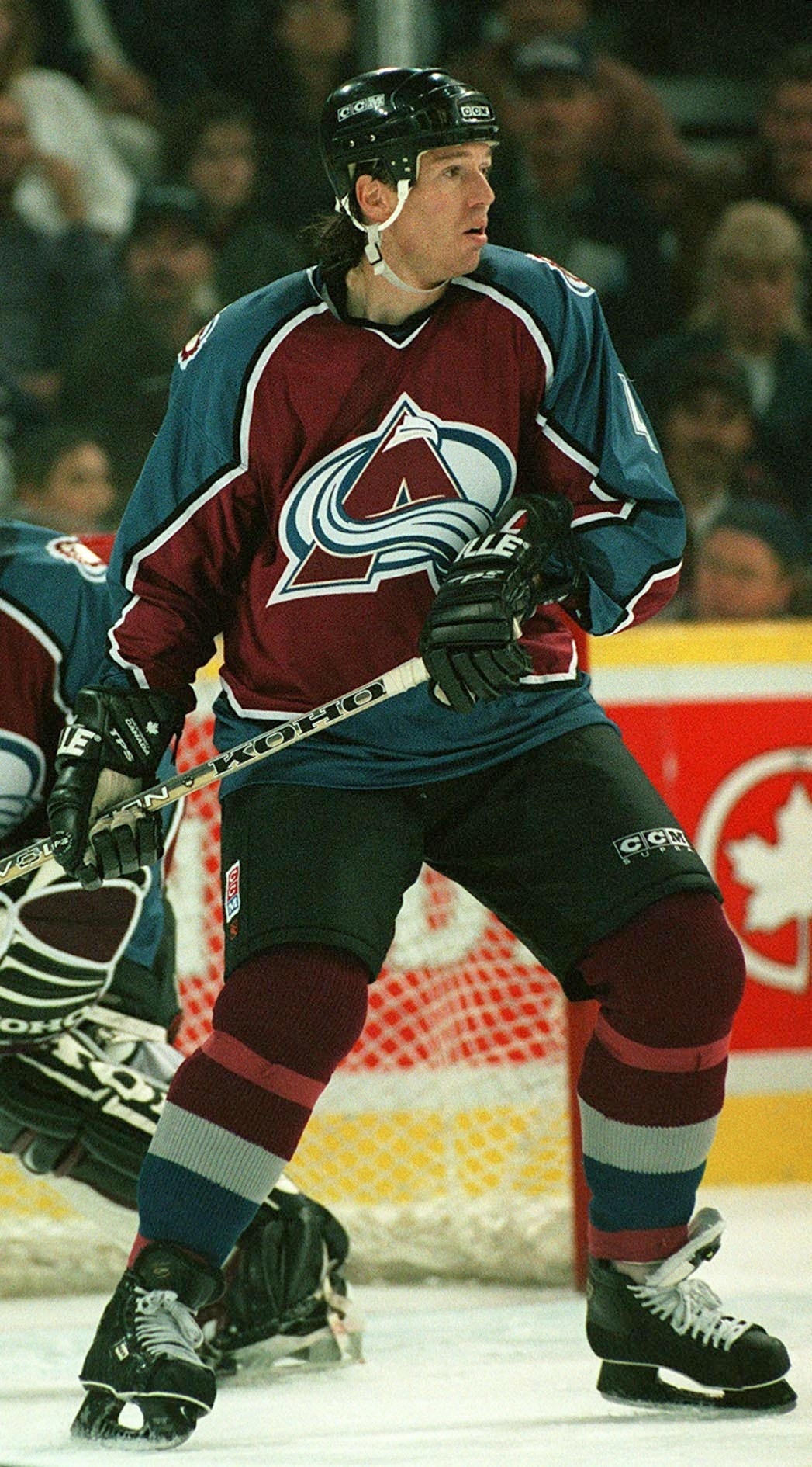 Uwe Krupp in a Colorado Avalanche jersey.